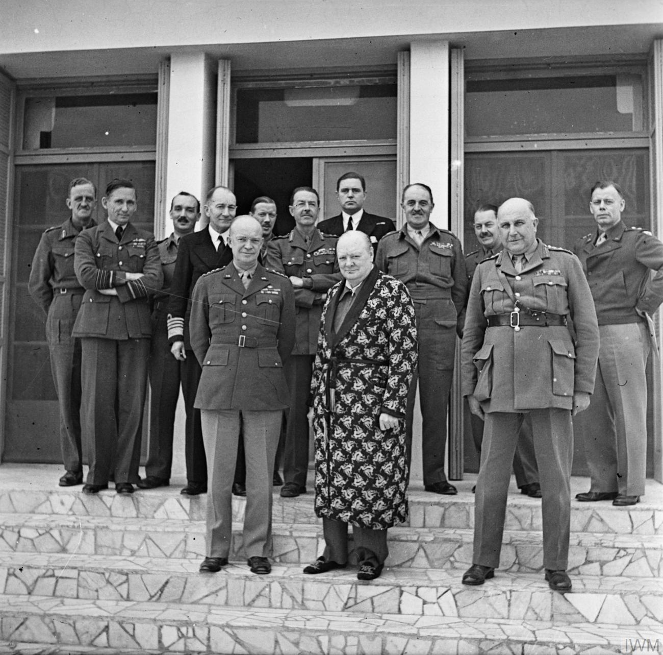 IWM caption : THE BRITISH ARMY IN ITALY 1943. Winston Churchill, recovering from a bout of pneumonia, with General Eisenhower (left), General Sir Henry Maitland-Wilson (right) and other military chiefs, Italy, 25 Dec 1943.